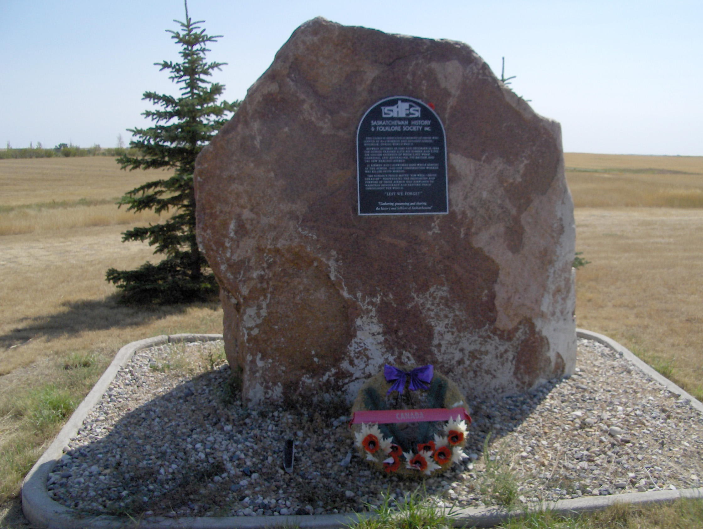 Cairn located on the edge of Highway 2, at the entrance of the former airbase near Mossbank, Sk.